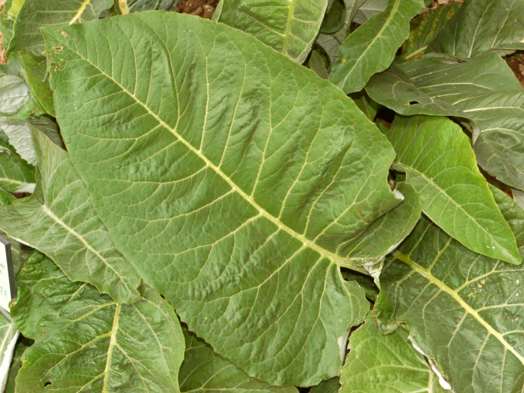 Rhaponticum heleniifolium subsp. heleniifolium - Col du Lautaret, France